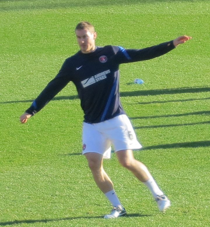 Matt Taylor warming up for the Watford v Charlton game on New Year's day 2013.